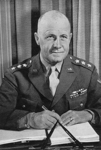 John Clifford Hodges Lee (August 1, 1887 – August 30, 1958) was a US Army general. He graduated 12th out of 103 graduates from the United States Military Academy in 1909. He served in World War I, World War II and rose to the rank of lieutenant general.